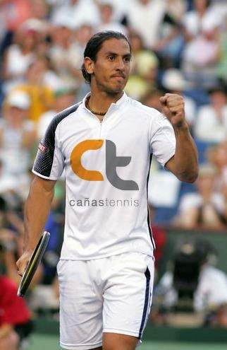 Picture of Guillermo Cañas